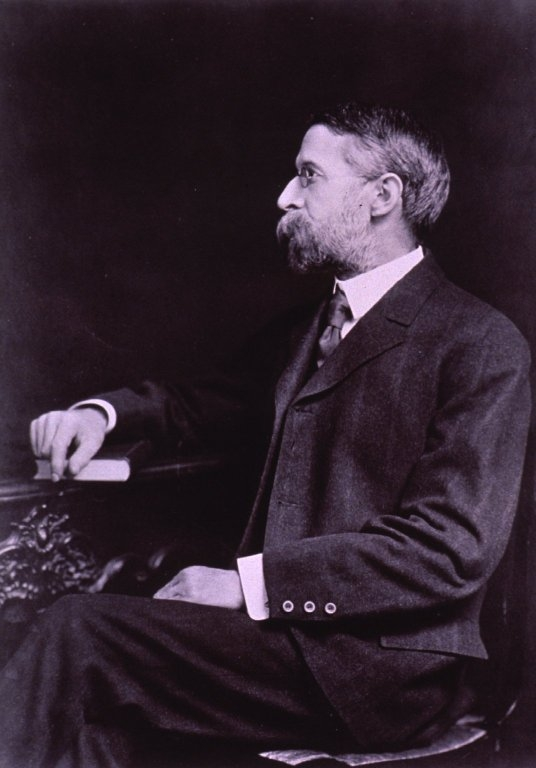 Mills, Charles Karsner, 1845-1931. Sitting portrait. From College of Physicians, Philadelphia, PA. HMD Prints & Photos, PP058866 num.